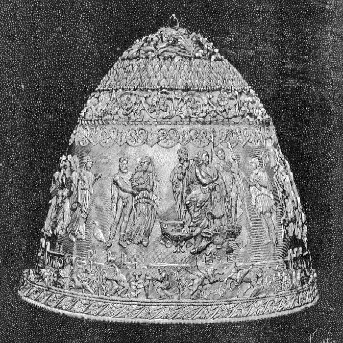 The "Saitaphernes tiara" image from the "La Nature" journal 1896. The tiara is considered af fake antiquity.